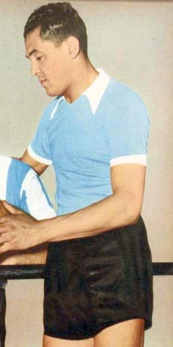 Obdulio Jacinto Varela.